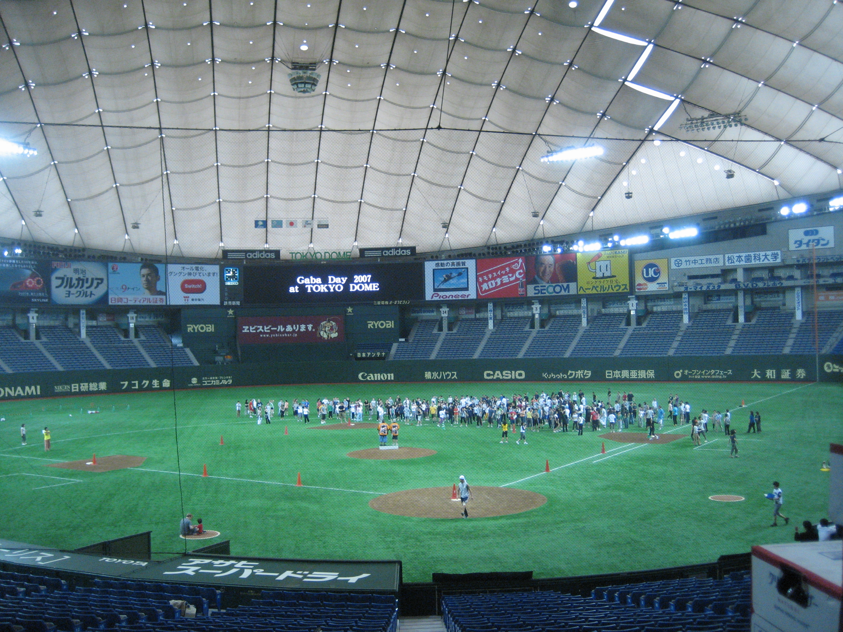 Gaba Corporation "Gaba Day" Sports Day held in Tokyo Dome, on May 18 2007